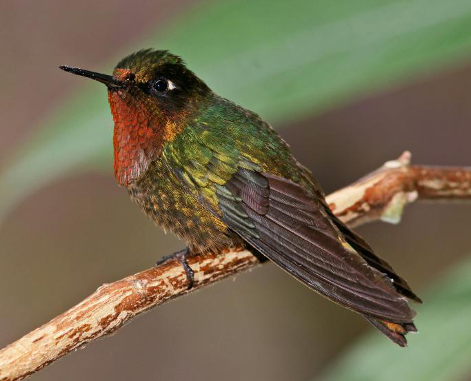 Orange-throated Sunangel, near La Azulita, Venezuela. Orange throat changes colors depending on how it is hit by the light.